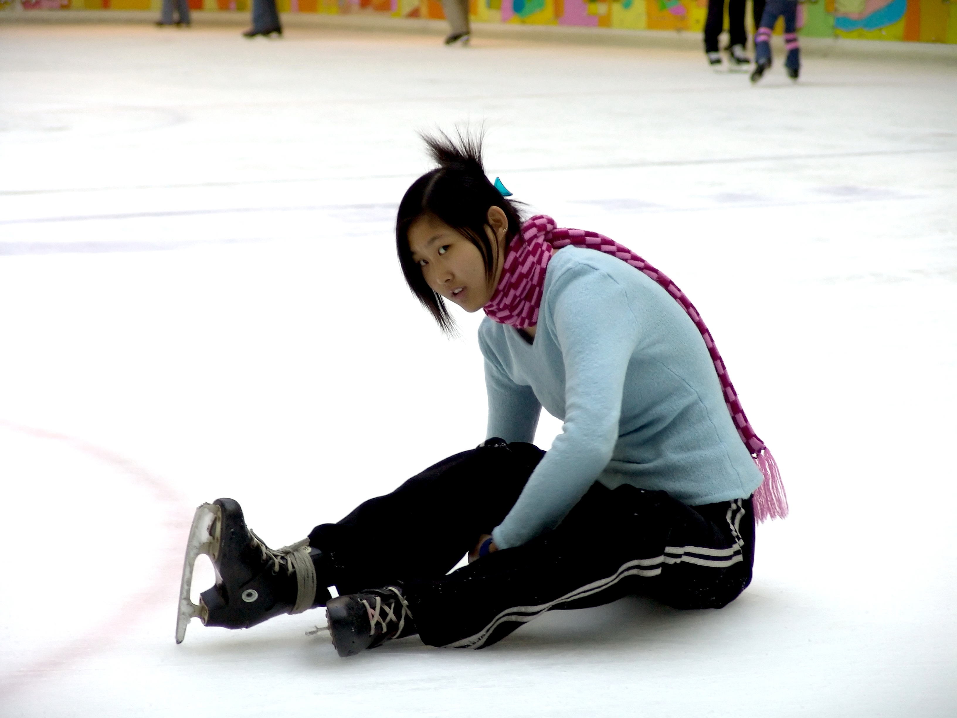 Girl wearing ice-skates, sitting down on the ice-rink.DSC01913